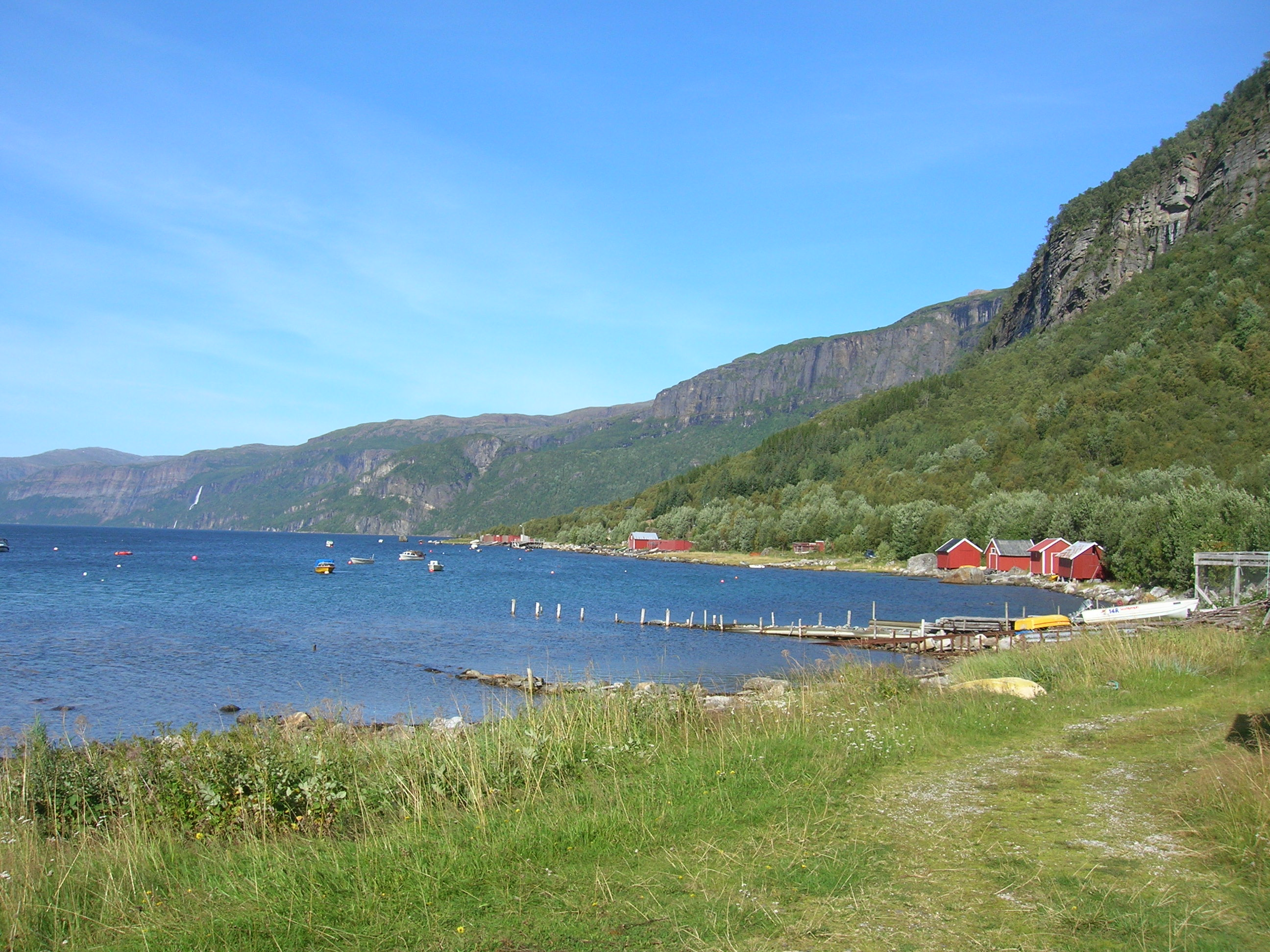 Melfjorden in Rødøy municipality, in the county of Nordland, Norway, Photo 1 September, 2005 with a Nikon Coolpix 5600 5,1 Megapixel camera.